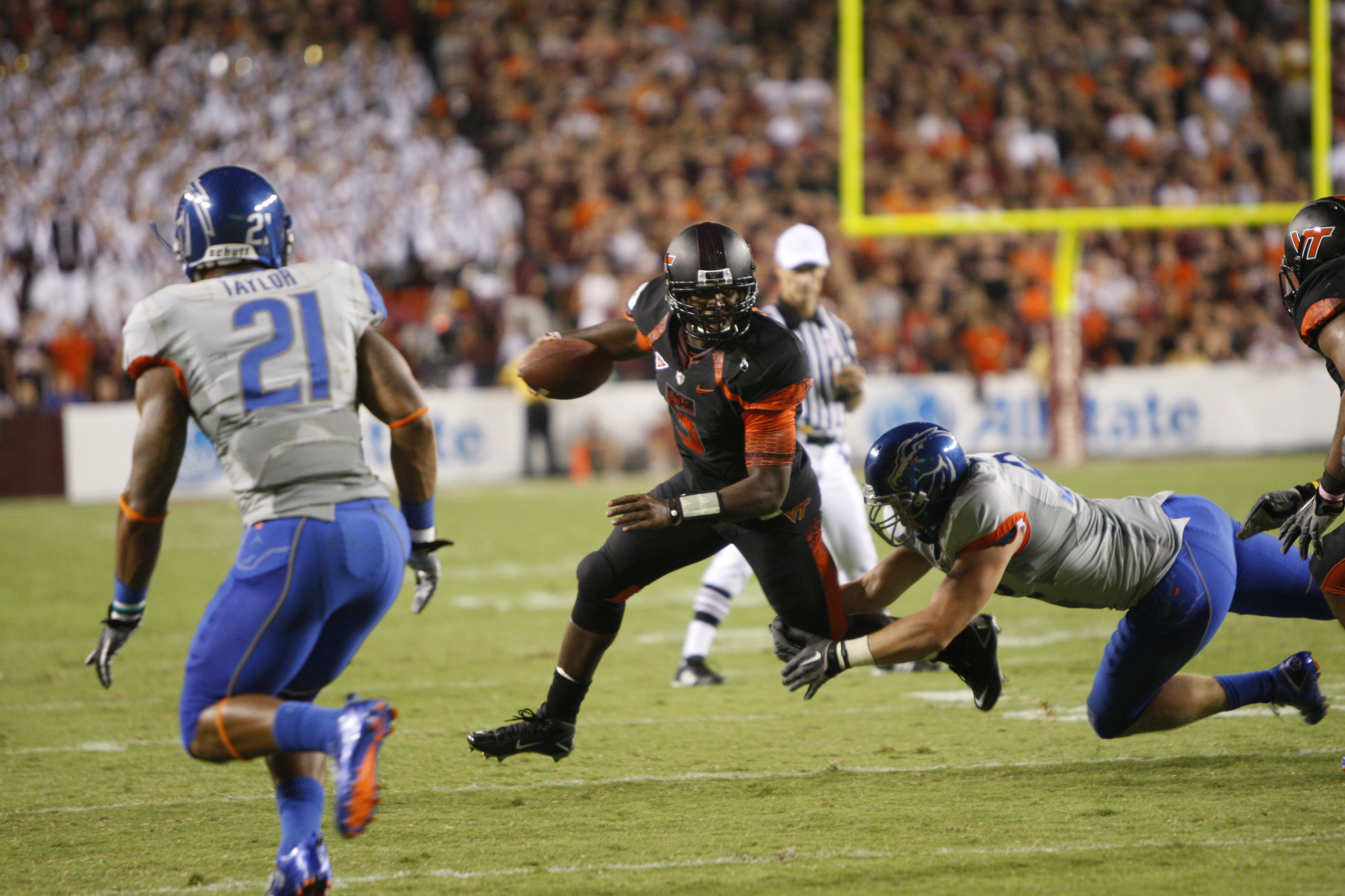 Virginia Tech quarterback Tyrod Taylor attempts to shake off a Boise State linesman during the season opener for Virginia Tech on FedEx Field in Landover, MD on September 6, 2010.